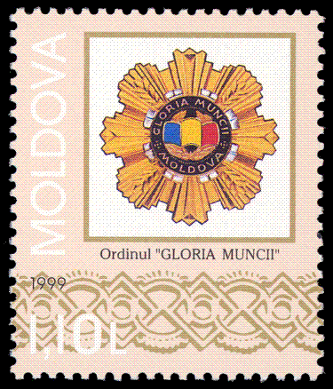 Stamp of Moldova